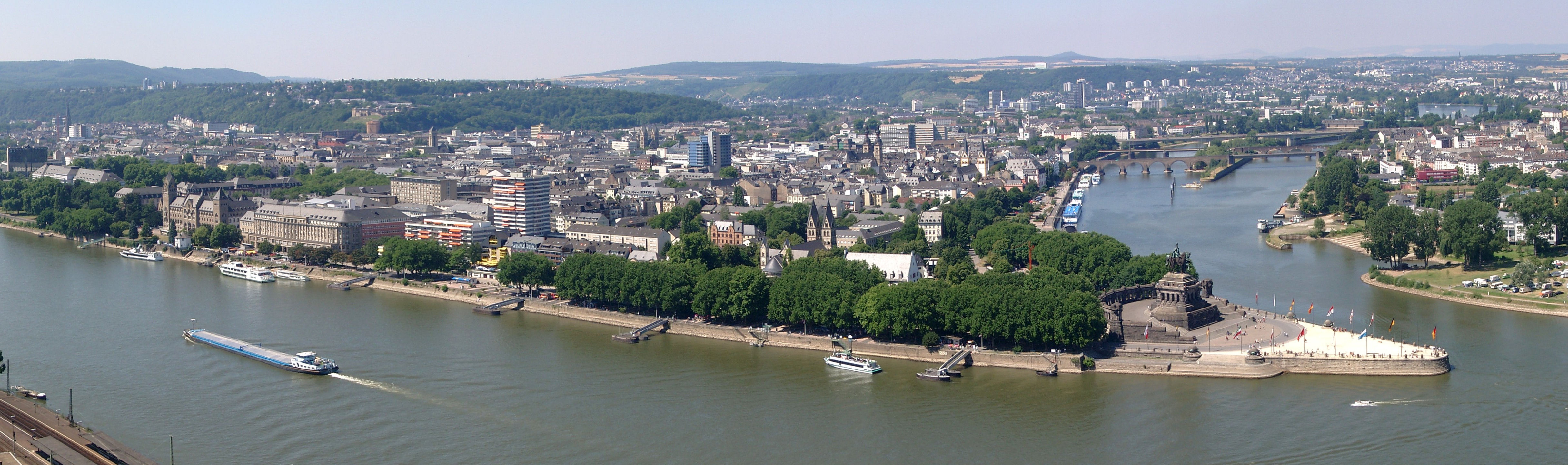 View from Festung Ehrenbreitstein to Koblenz